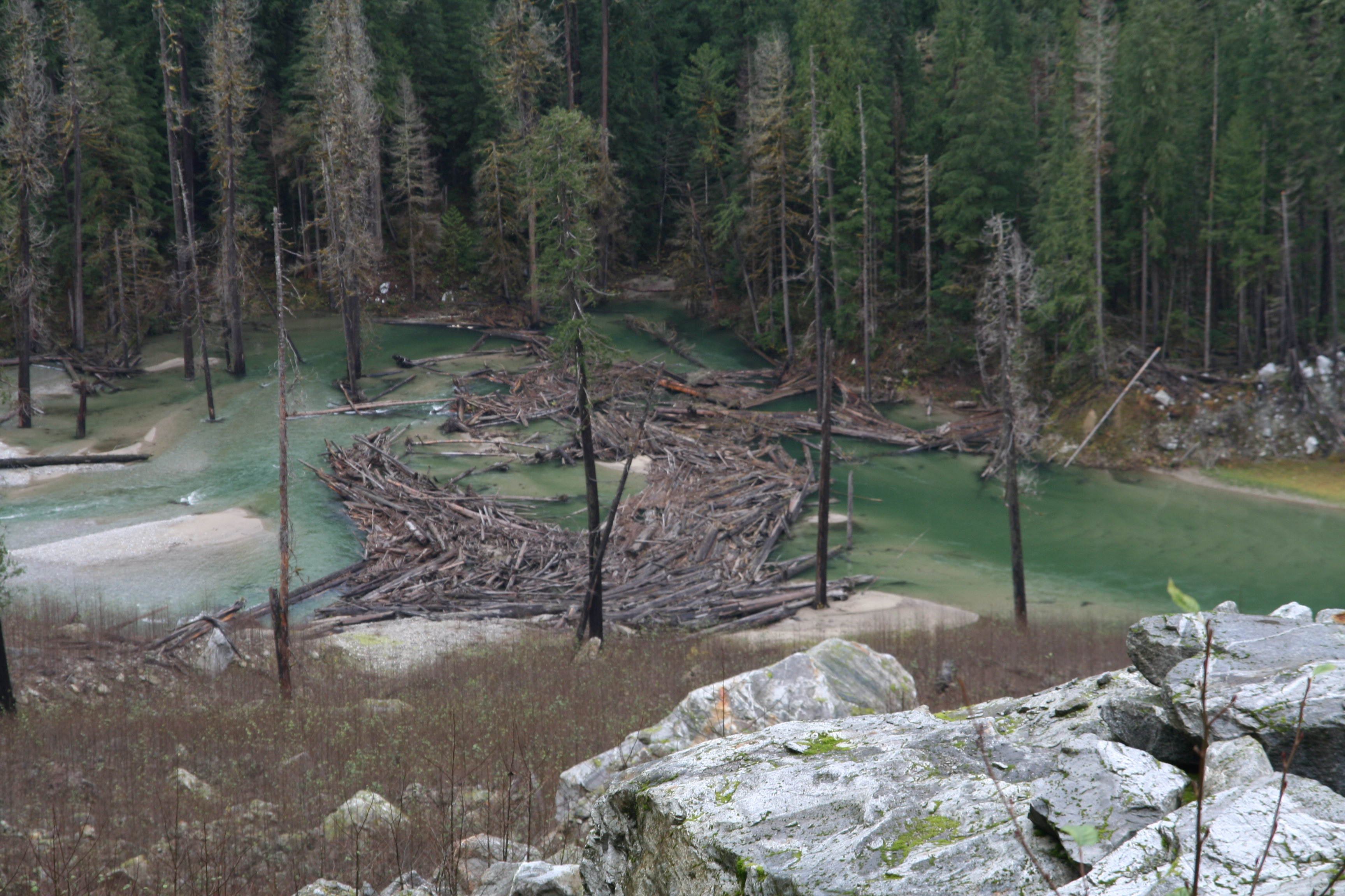 Dead Wood from loggin (= Log_Jam.) (Goodell_Creek) _Log_Jam.jpg